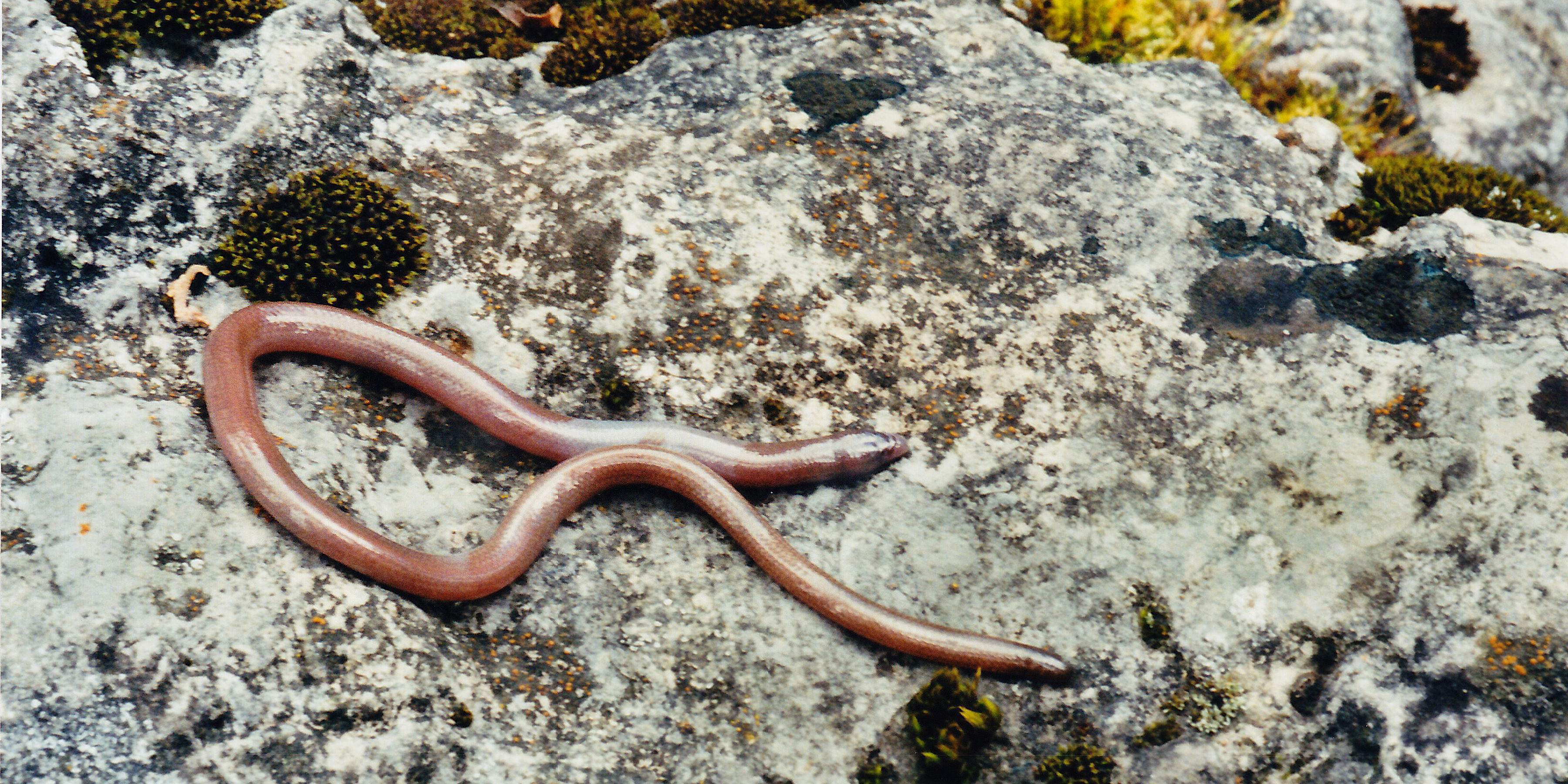 Mexican Blind Lizard (Anelytropsis papillosus), municipality of Tula, Tamaulipas, Mexico. Photographed on 15 August 2004 by William L. Farr. This image was originally photographed with film and later scanned from a print.